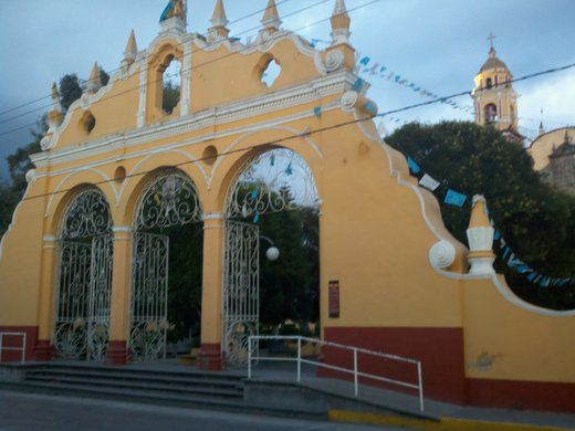 Ex-Convento Franciscano en San Andrés Cholula